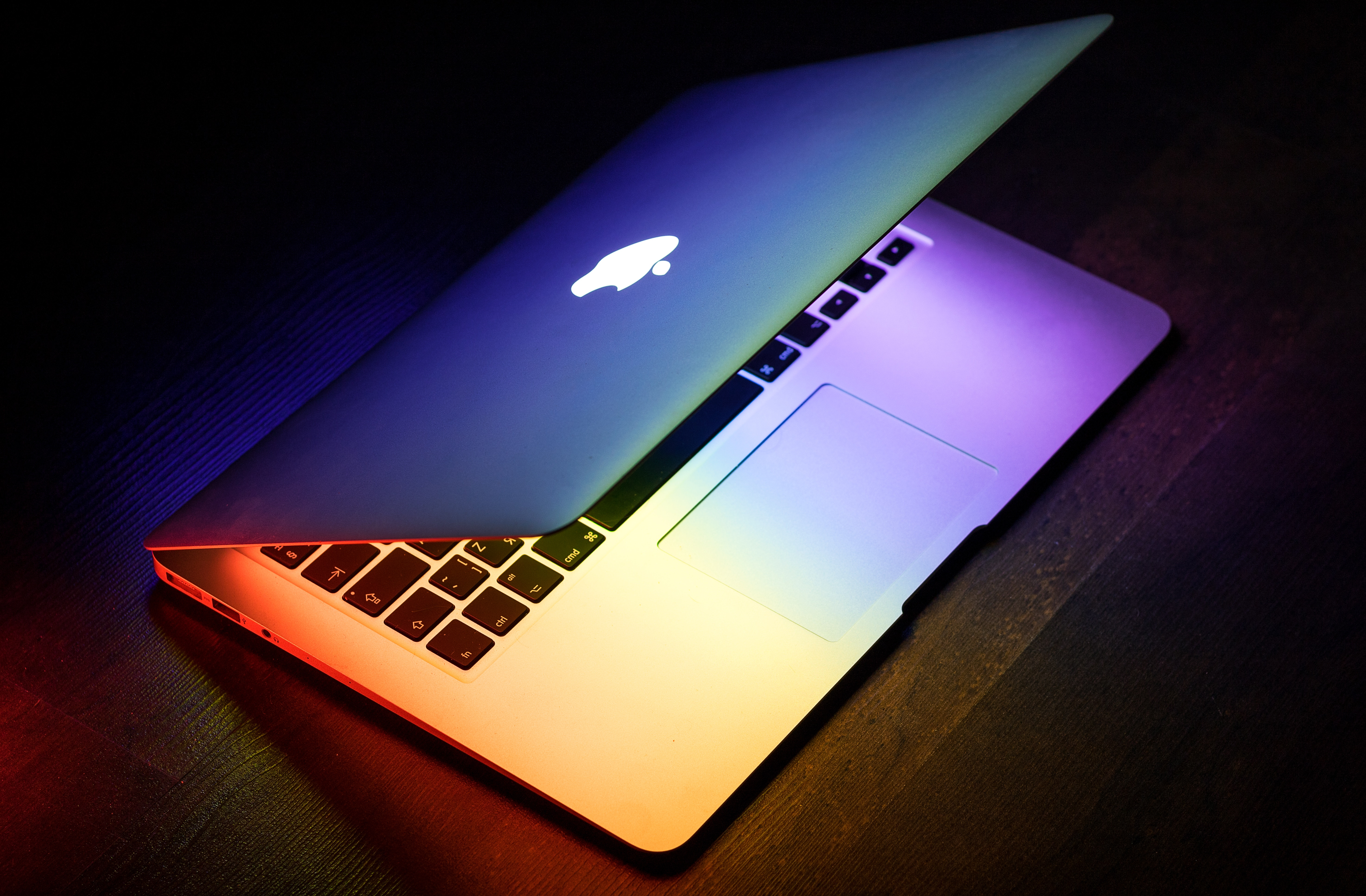 Stylized presentation of a MacBook Air (Early 2015)